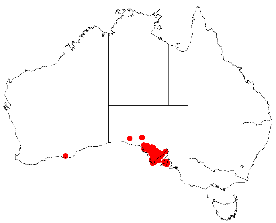 Homoranthus wilhelmii Occurrence data from AVH downloaded 28 September 2018